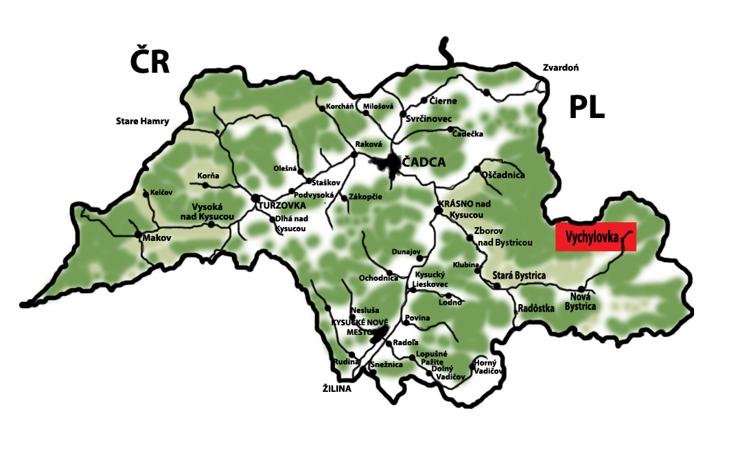 map of Kysuce